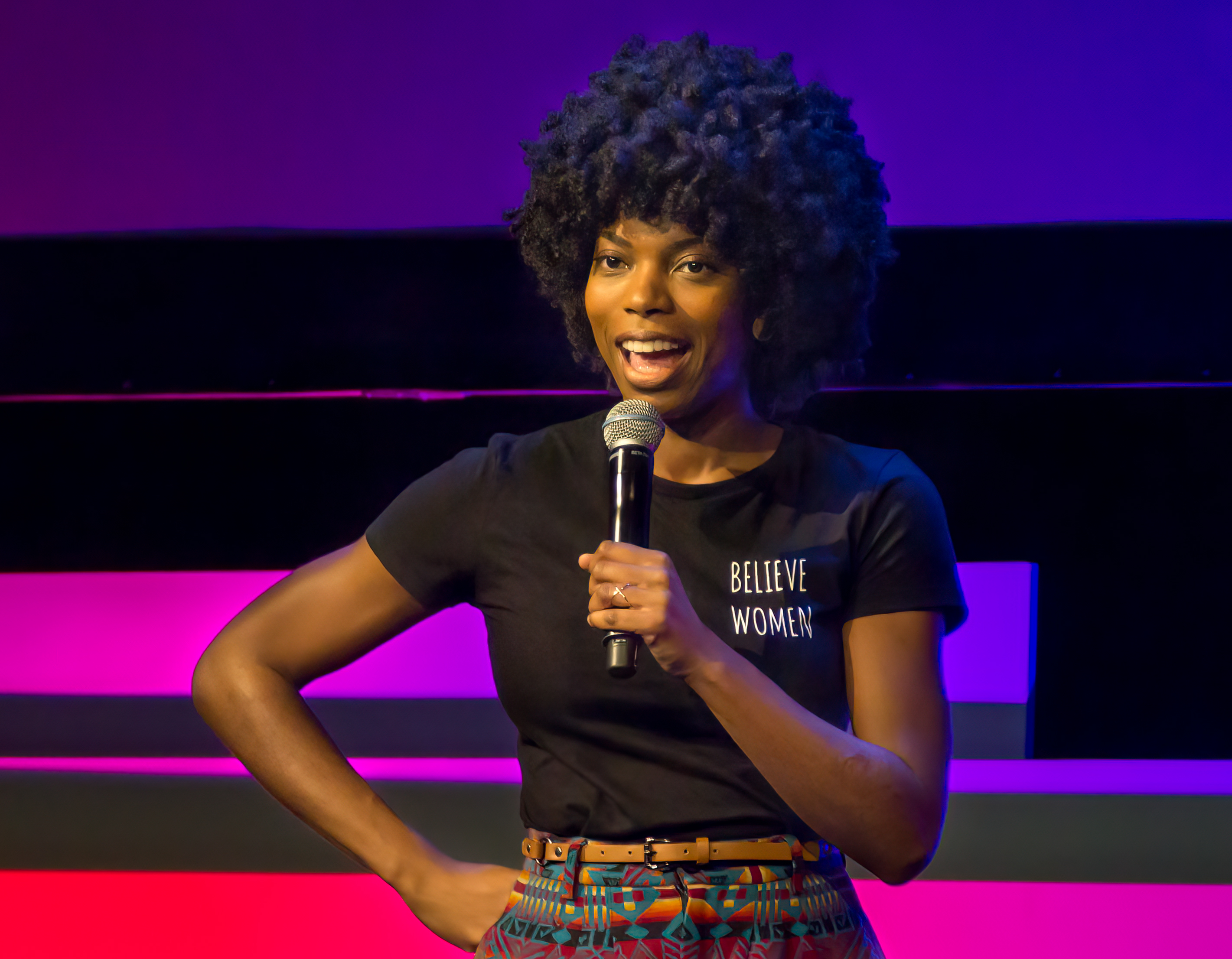 Time's Up event at the 2018 Tribeca Film Festival (Tribeca Talks: Time's Up). A series of talks/performances about Time's Up/sexual harassment. Sasheer Zamata performing during the Sisters of Comedy Standup session.